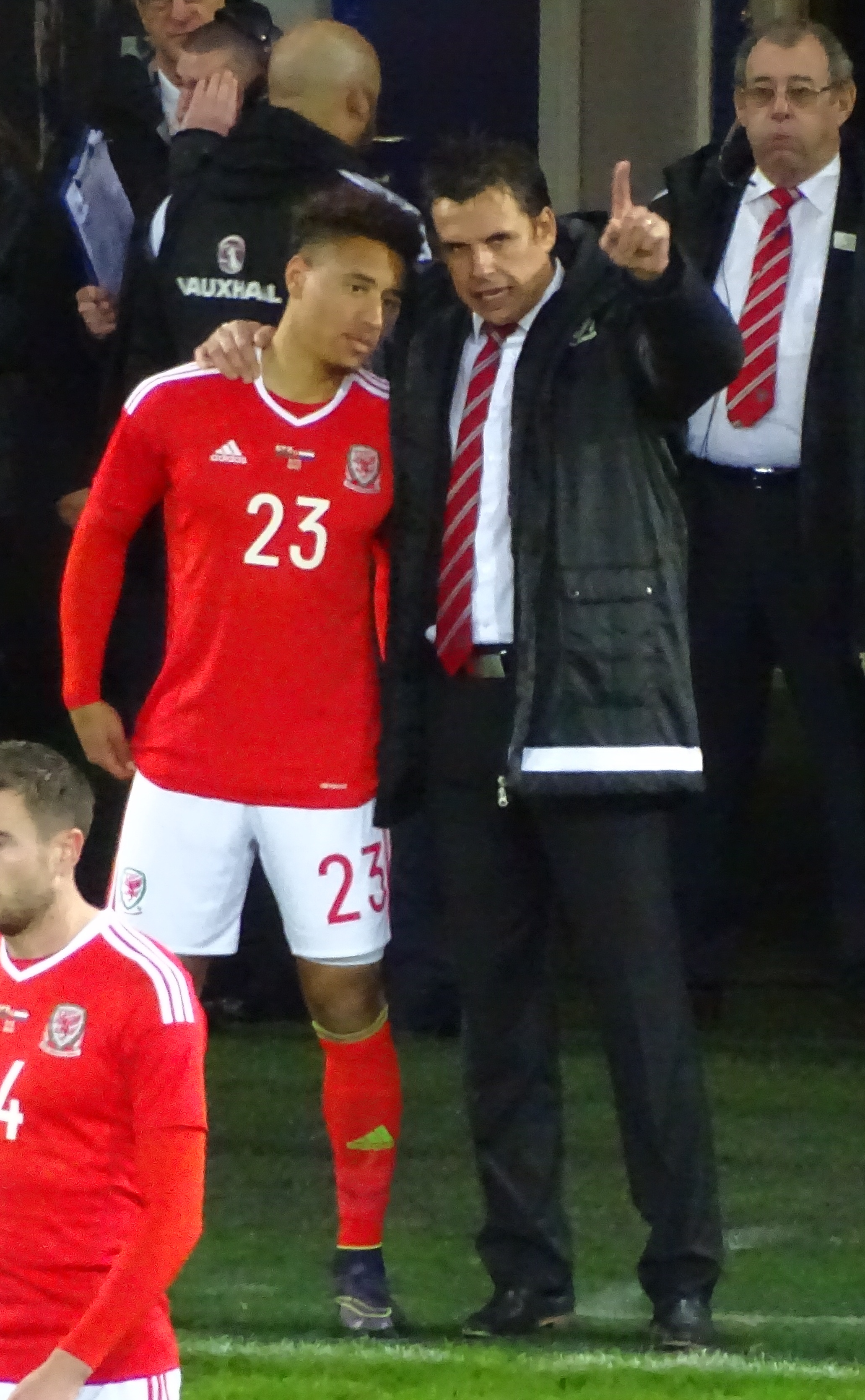 Footballer Adam Henley talks to manager Chris Coleman prior to making his debut for Wales.